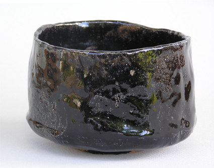 Hikidashi